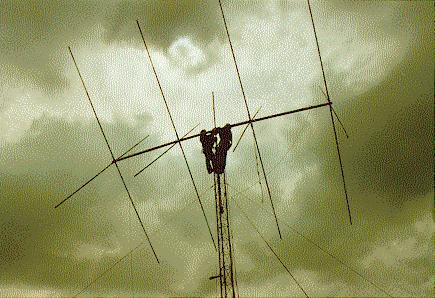 Quad Antenna at W8GVU (Grand Valley State University Amateur Radio Club, in Grand Rapids, Michigan) in 1998. You see N8PPQ and KB8TWH